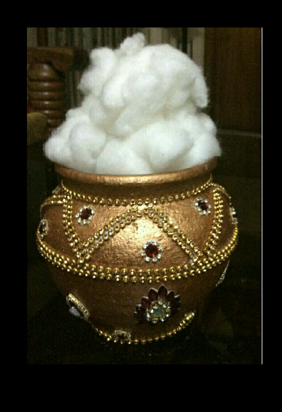 A dish consumed during the festival